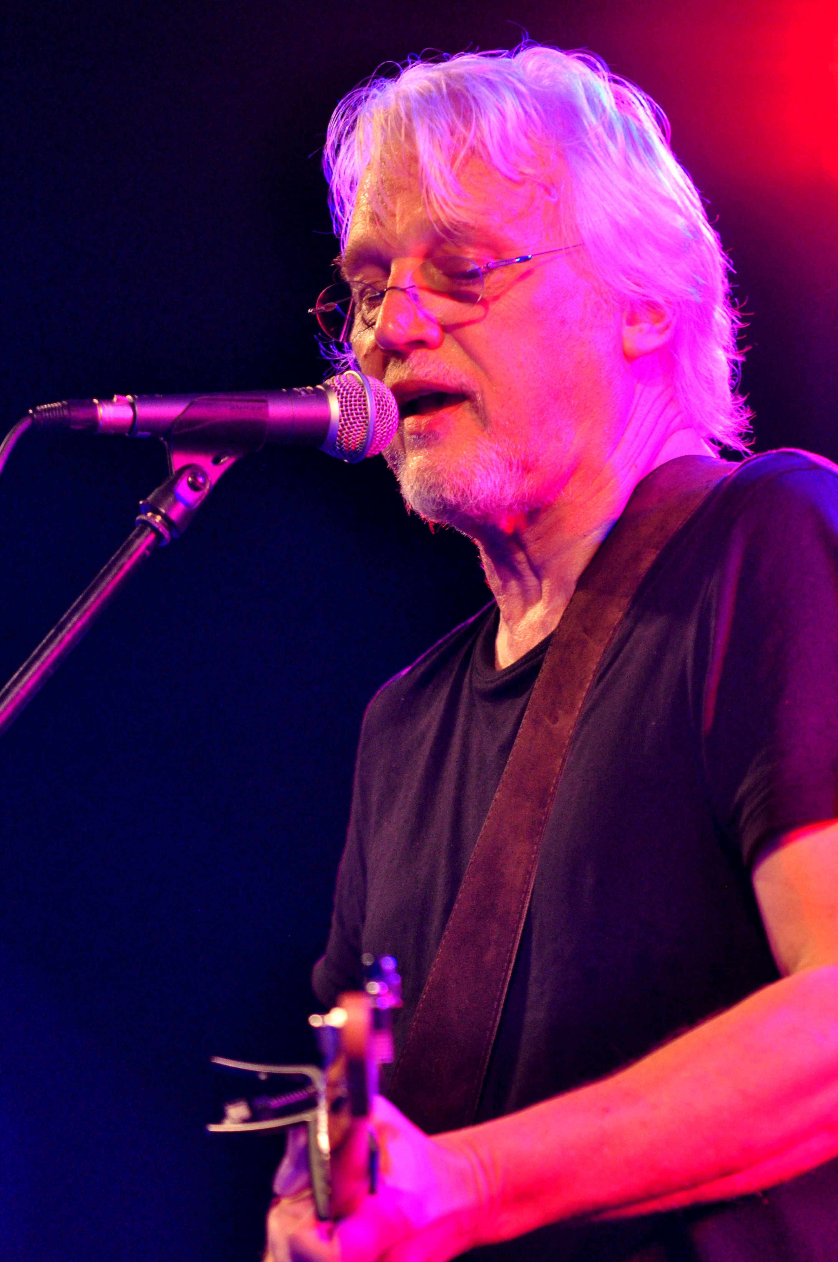 David Knopfler (GBR) appearance at the 2017 blacksheep festival at Bonfeld castle, Bad Rappenau, Baden- Wuerttemberg, Germany Festivalsommer This photo was created with the support of donations to Wikimedia Deutschland in the context of the CPB project "Festival Summer".